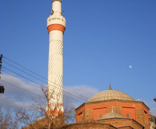 Minaret and Dome of Hatuniye mosque built by Hüsnüşah Hatun